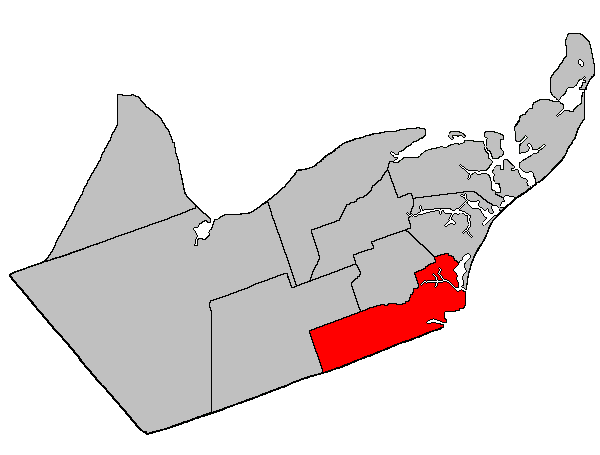 Location of Caraquet Parish within Gloucester County, New Brunswick, Canada.